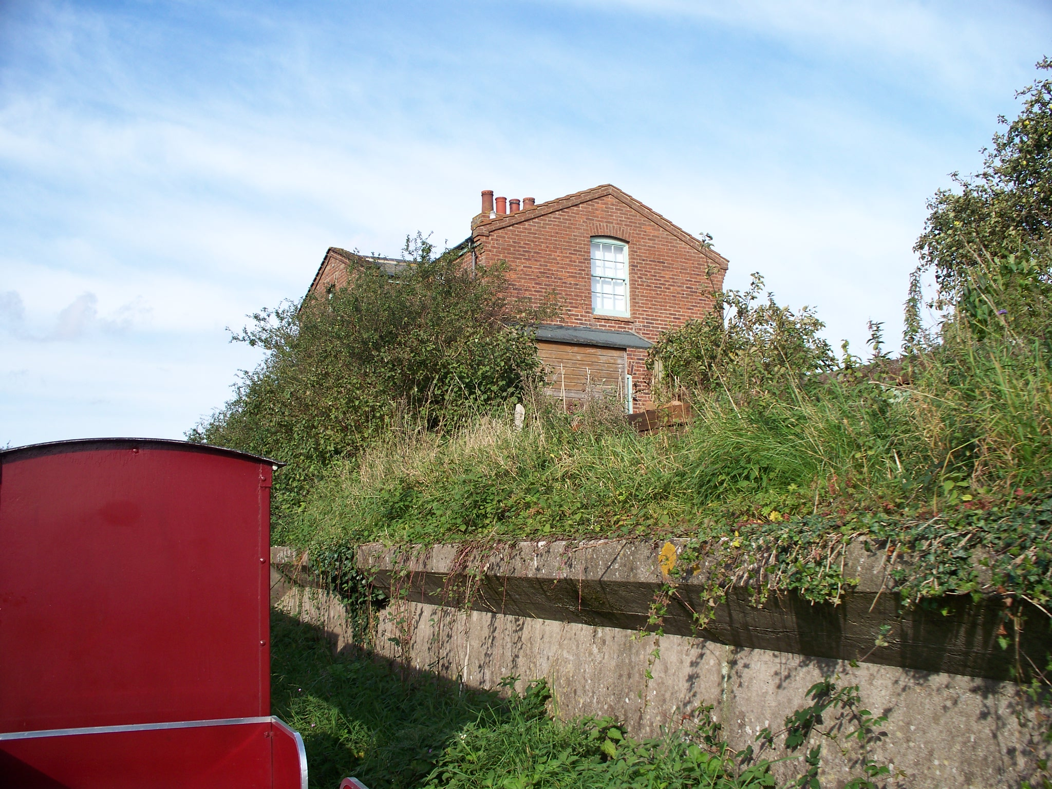 The old platform and station house at Wighton.